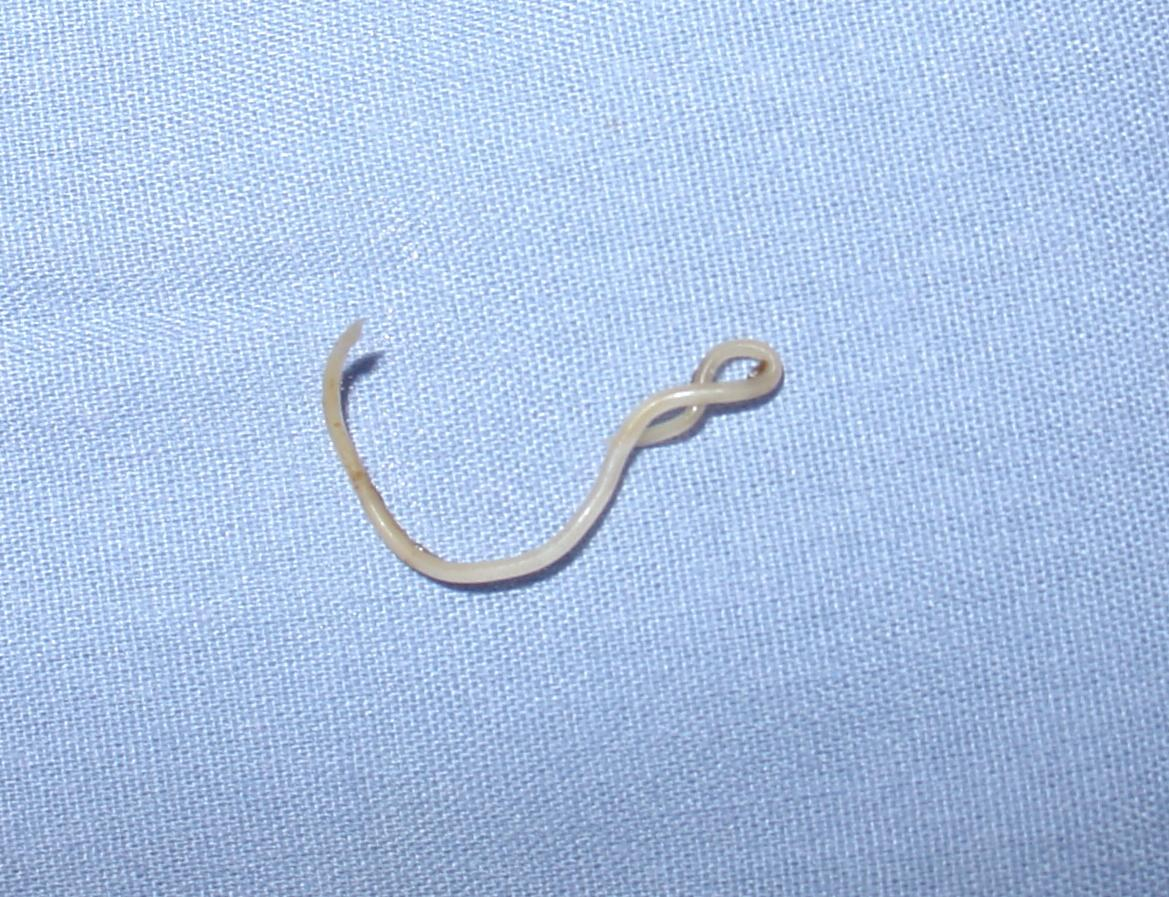 Toxocara canis (canine roundworm) from a puppy.